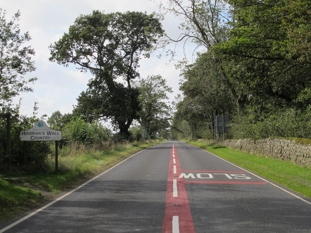 (The line of) Hadrian's Wall west of Piers Gate, Data from Geograph: Description: The Wall itself lies under the Military Road (B6318). ICBM: 55.011586458567, -1.9514959220489 Location: 3 km from Aydon, Northumberland, Great Britain.